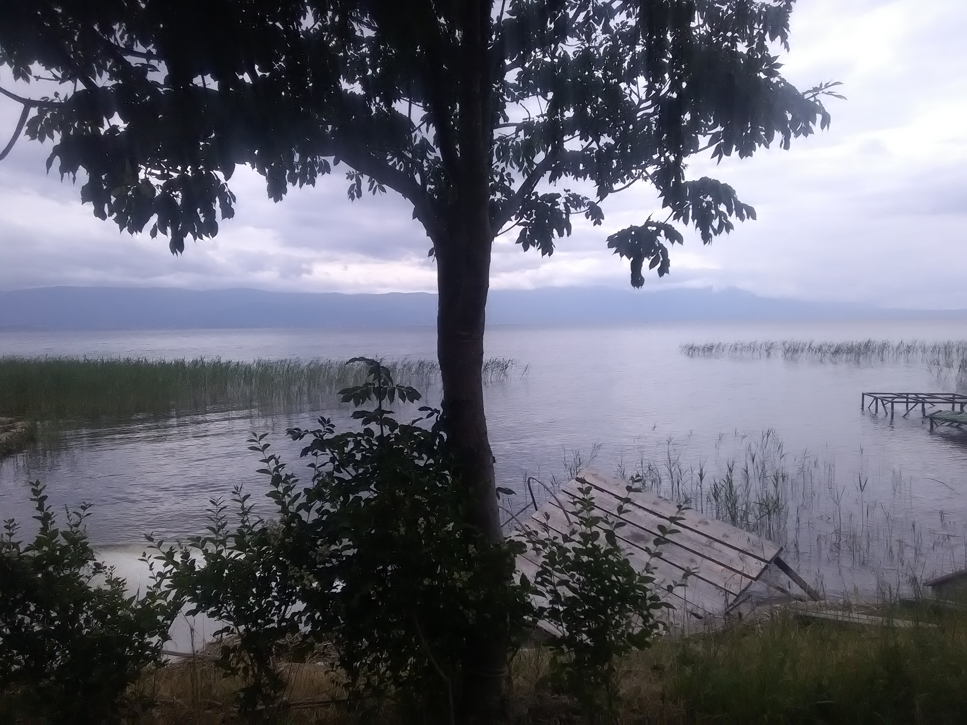 Ohrid Lake in Autocamp Livadista